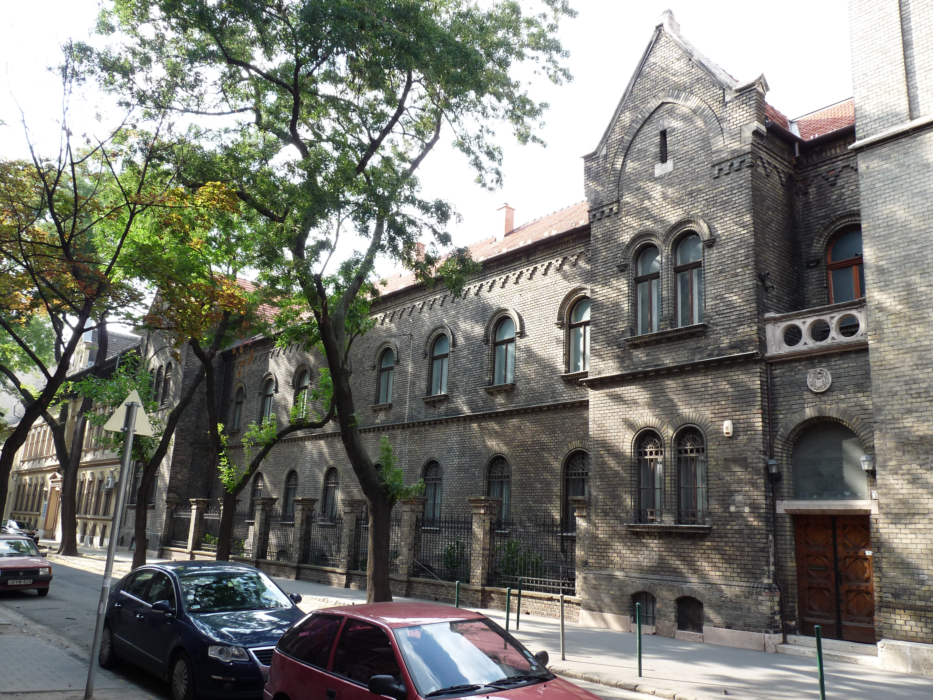 Carmelite monastery in Budapest